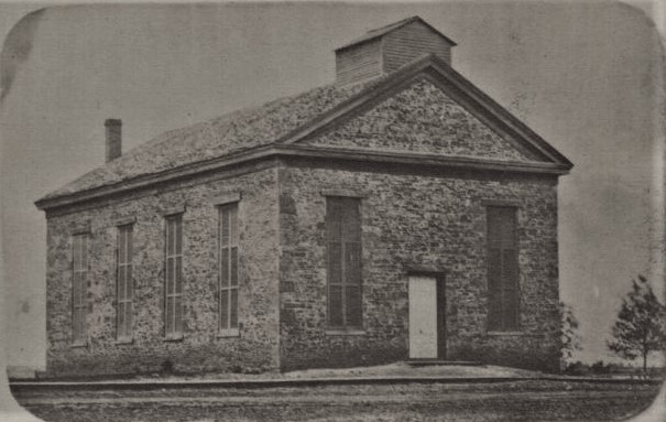 A composite photograph showing the Plymouth Congregational Church, Lawrence, Kansas, c. 1856